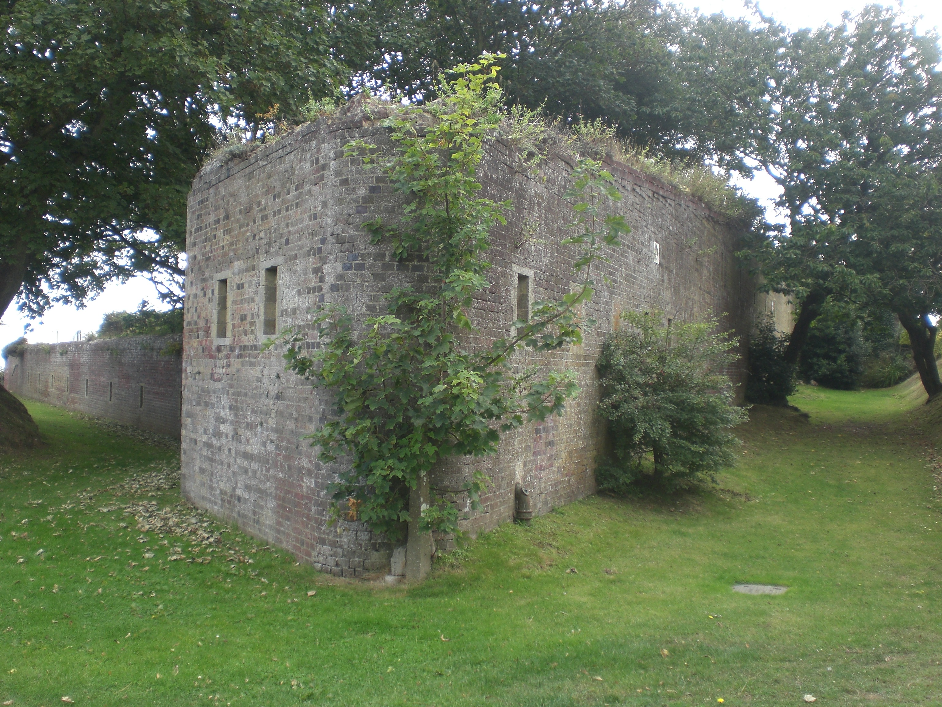 Sandown Barrack Battery, a Palmerston Fort built on the coast of Sandown on the Isle of Wight.